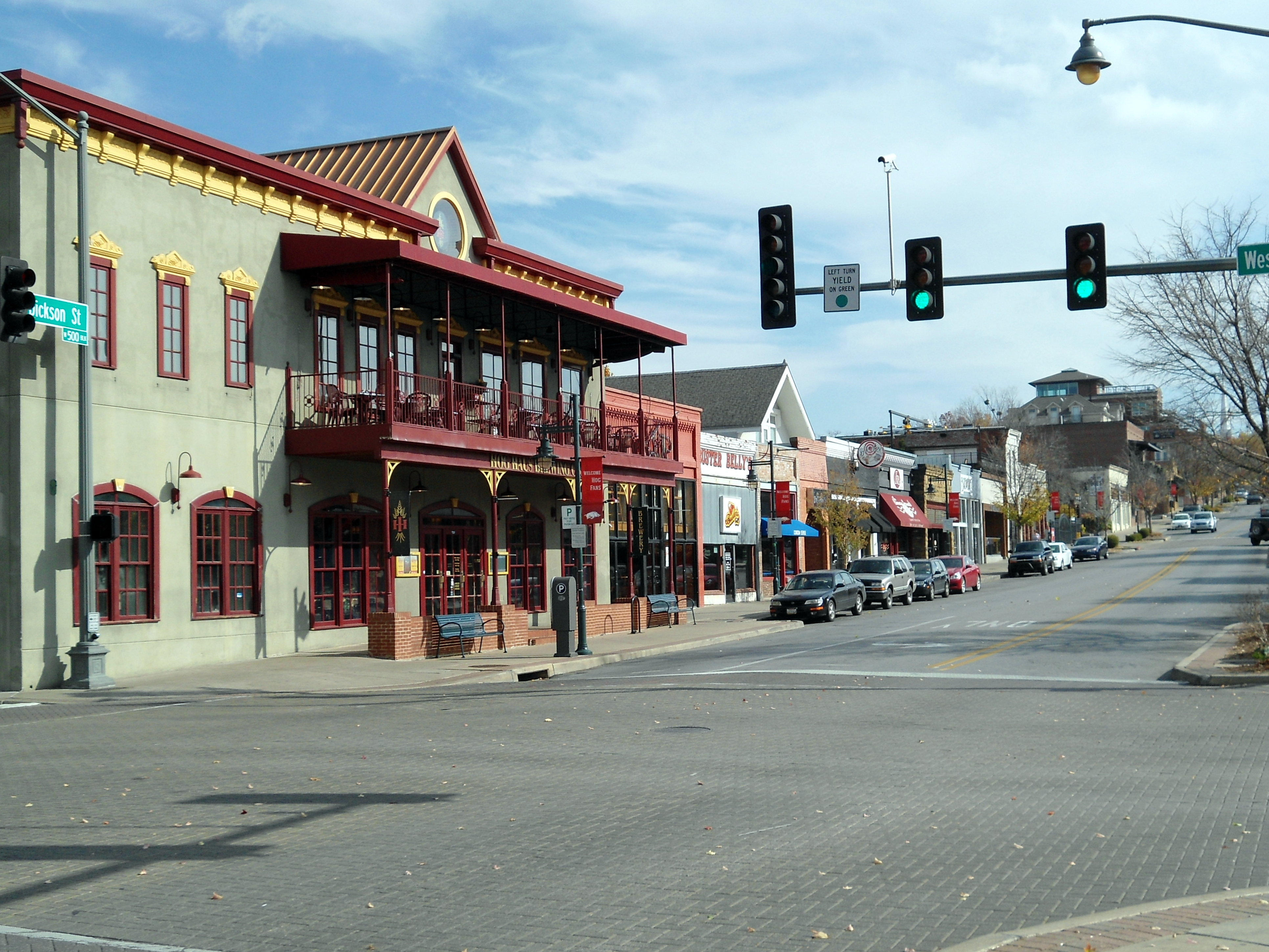 Junction within the West Dickson Street Commercial Historic District, on the NRHP. Heart of Fayetteville, Arkansas' entertainment district.